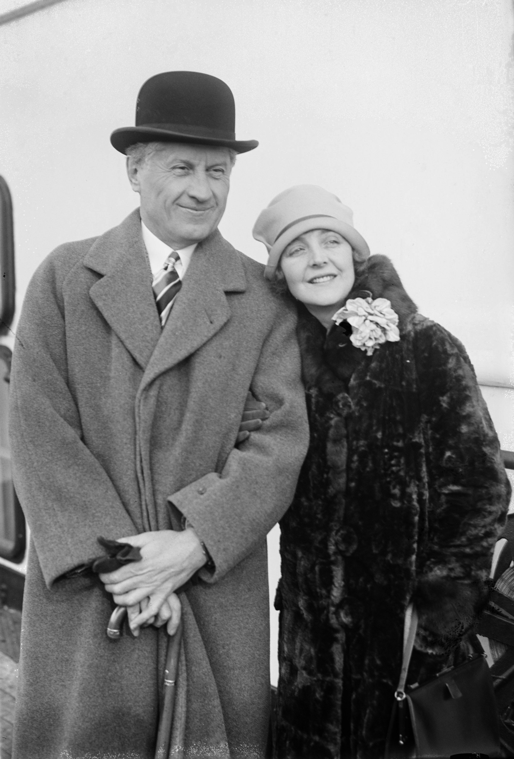 Actor Fred Niblo and wife